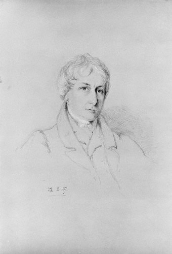 Portrait of Arthur Howe Holdsworth, Devon merchant and Member of Parliament. Pencil and chalk, by the artist William Brockedon. Courtesy of the National Portrait Gallery, London.